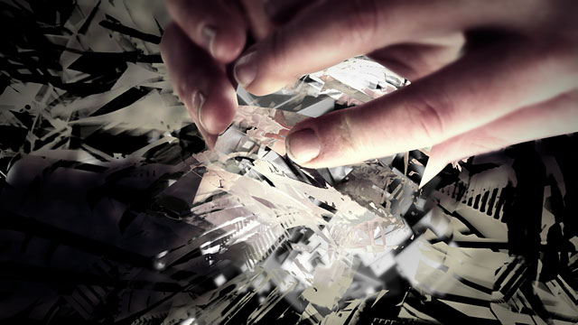 Still from "The Antikythera Mechanism" by Scott Pagano